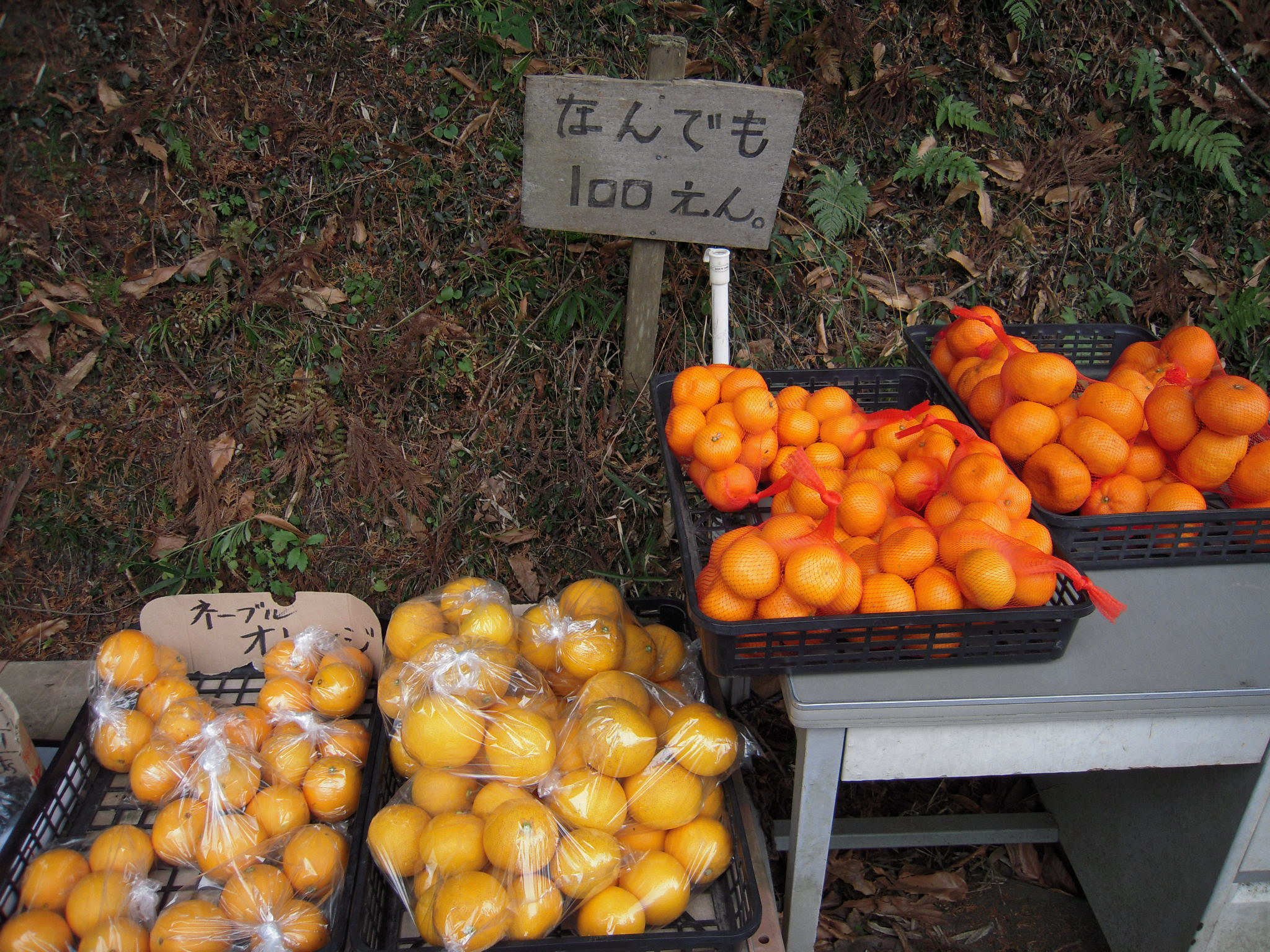 Unmanned shop of mikans (right) and oranges (left) in Nara prefecture, Japan.